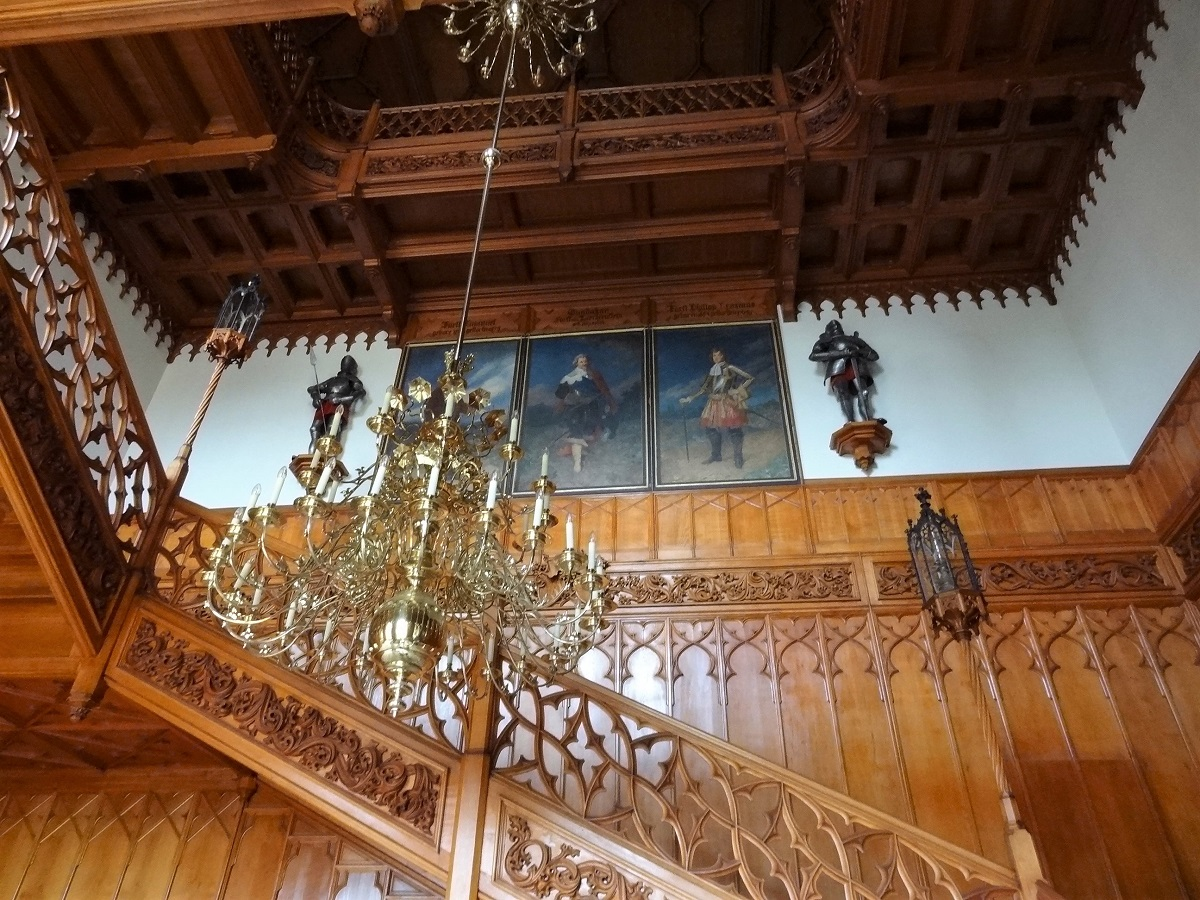 Lednice Castle interior